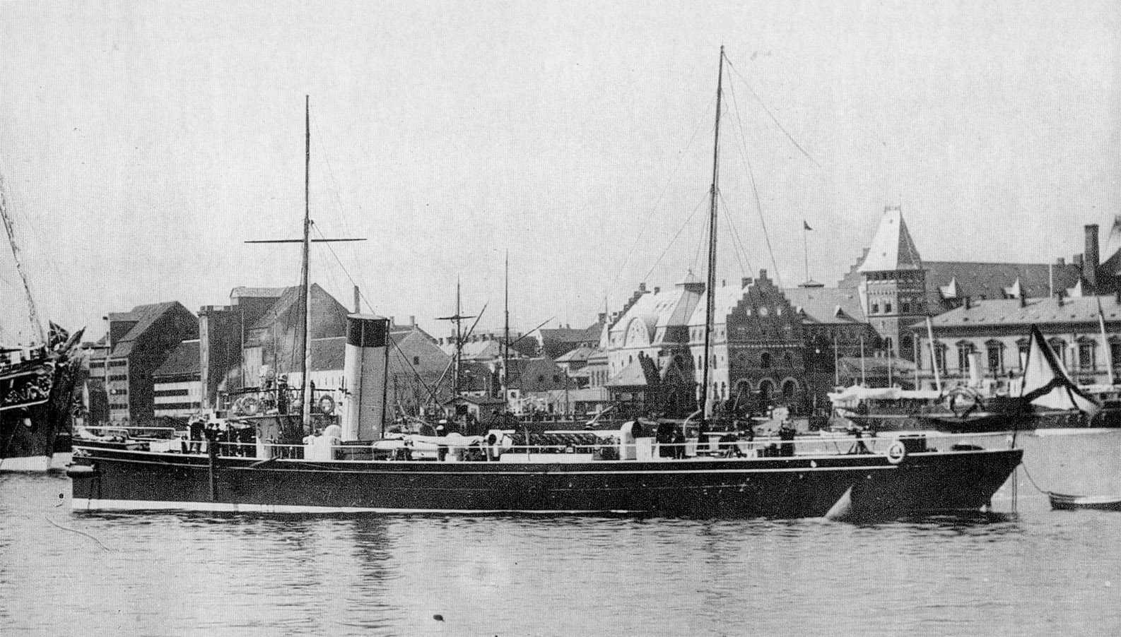 Imperial Russian torpedo gunboat (Kazarskiy class torpedo cruiser) Gaydamak in Reval (Tallinn) (service 1892-1905, 1905-1914 in Imperial Japanese Navy).